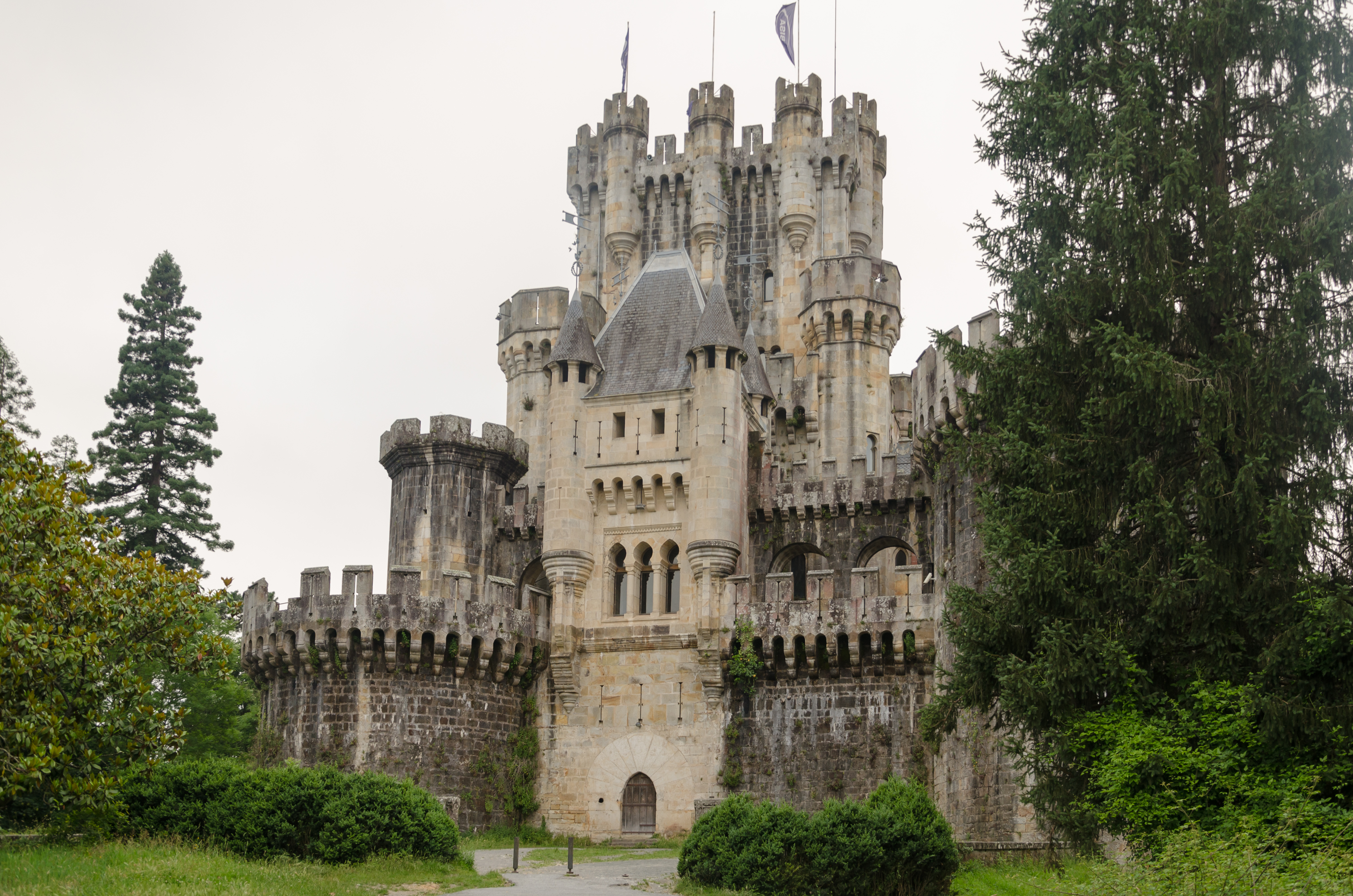 The Butron castle is unused and with little care.